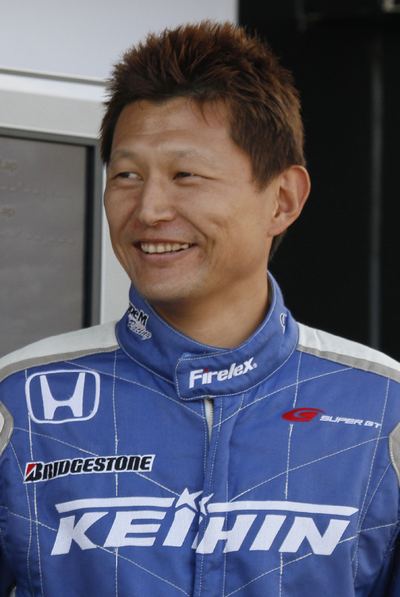 Motorsport Japan 2010: Toshihiro Kaneishi (Keihin Real Racing / Super GT)